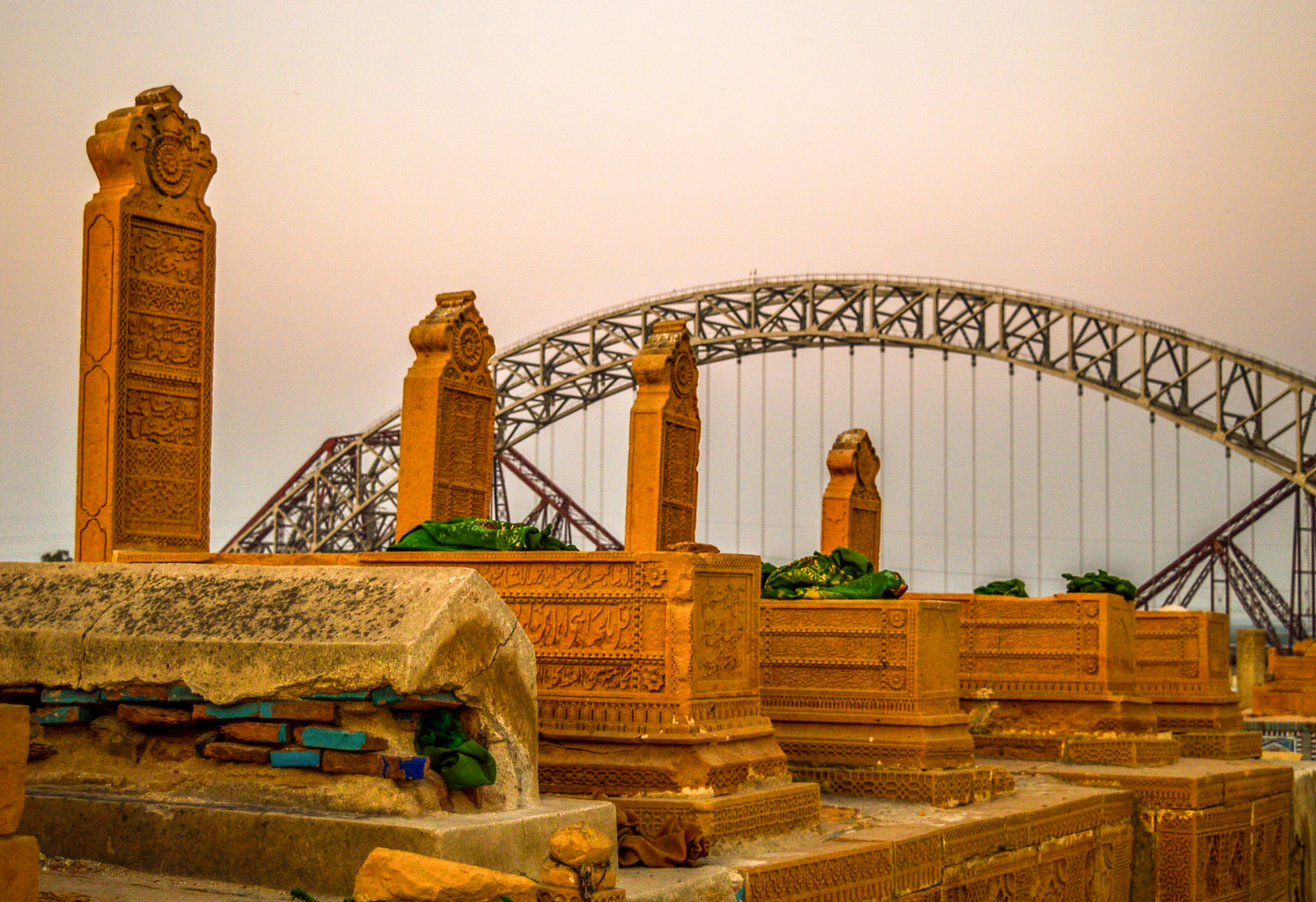 Satyan-jo-than This is a photo of a monument in Pakistan identified as the SD-57